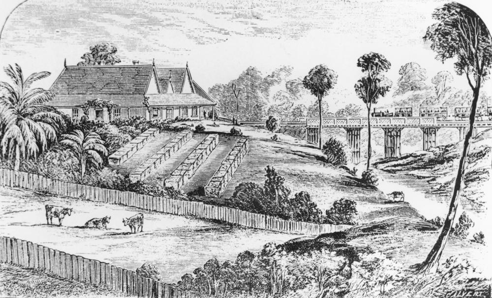 Queensland's first railway train passes over Iron Pot Gully, Ipswich district, 1865 Caption under photograph reads: Opening of the Queensland Railway. The first train passing over Iron Pot Gully. The first stage of the Ipswich to Grandchester railway line opened on 31 July 1865. This line was the first narrow gauge (3 feet 3 inches) railway in Australia, and was Queensland's first railway line. By 24 May 1866 the line had been extended to Gatton. It reached Toowoomba on 12 April 1867.